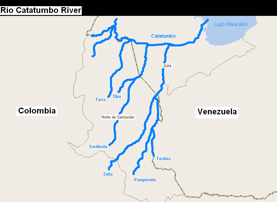 Catatumbo river bank.